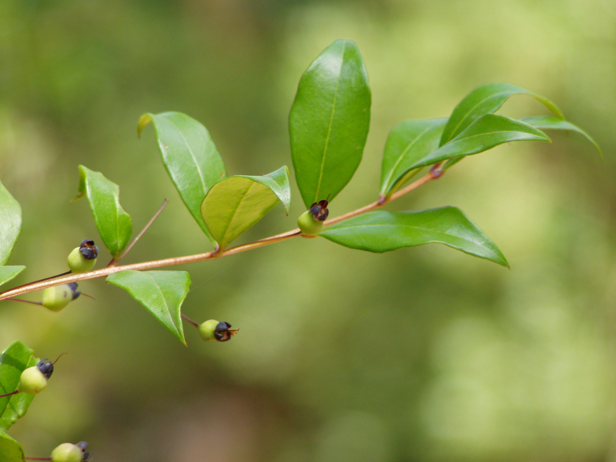 Myrtle